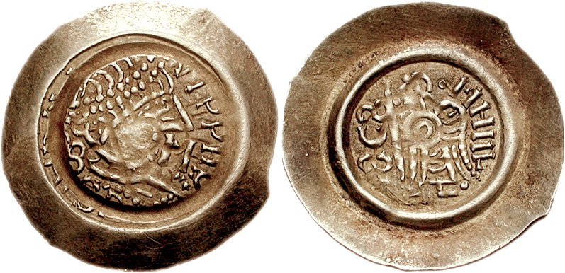 Lombards: Lombardy & Tuscany. Liutprand. 712-744. AV Tremissis (1.17 g, 7h). Uncertain northern Italian mint. DNLI VTPPIIRX (NL and RX ligate), diademed, draped, and cuirassed bust right; M to right, S D below bust SCS • MHIIL, St. Michael the Archangel standing left, holding long cross and shield; at feet to right, pellet. Cf. Bernareggi 85; cf. BMC Vandals 1; cf. MEC 1, 322. Good VF, toned. From Collection C.G. Ex Classical Numismatic Group 61 (29 September 2002), lot 2191.